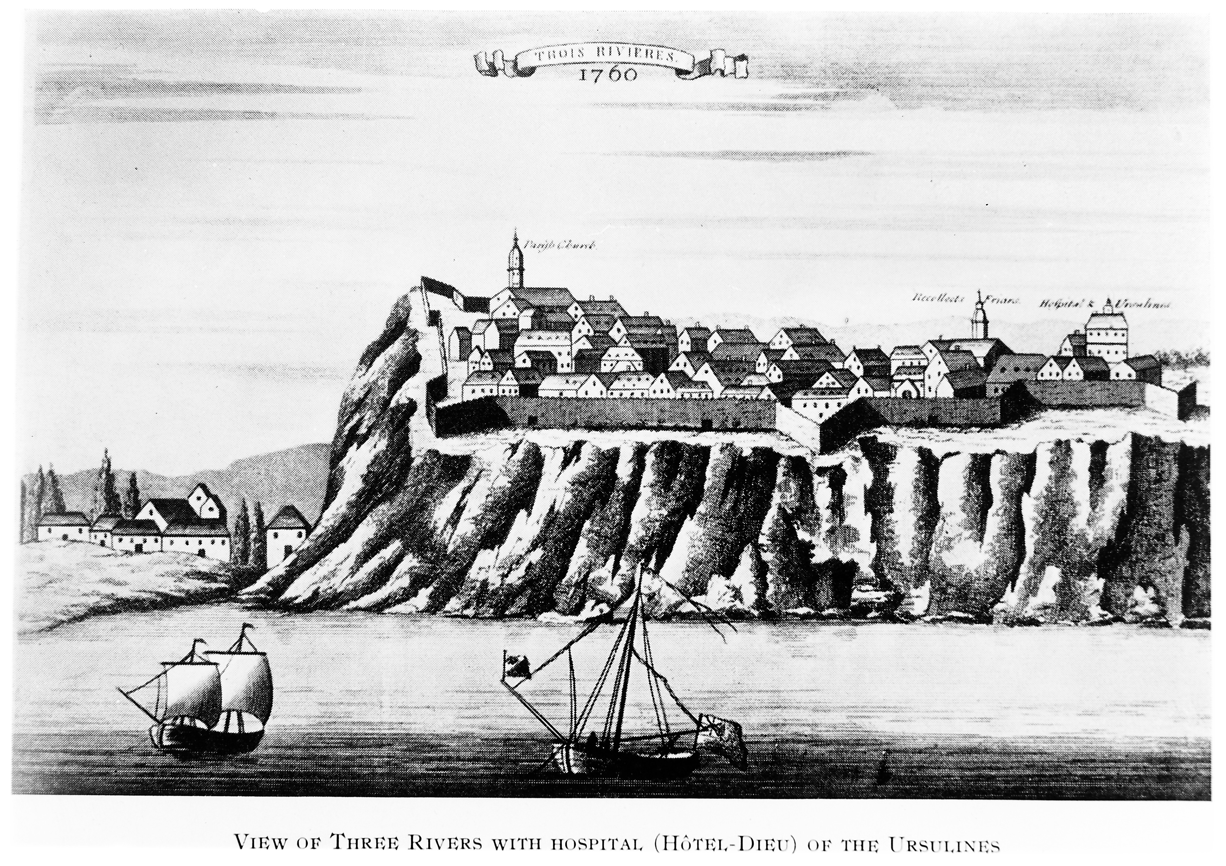 The Hospital of the Ursulines, Hotel-Dieu. View of Three Rivers, Canada, 1760. General Collections Keywords: Canada; Institutions